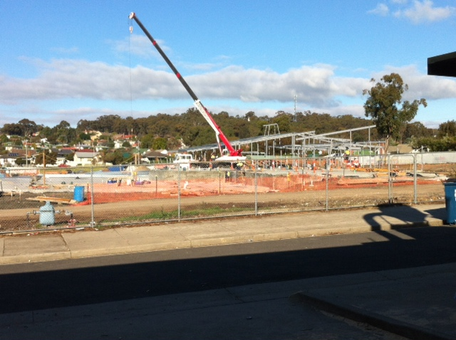 Construction underway 29 May 2012